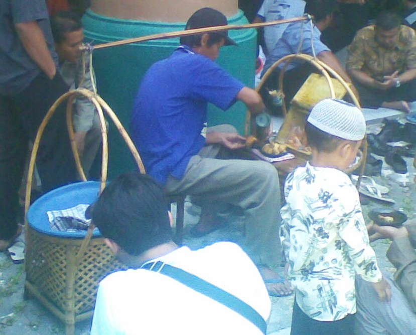 Someone serve tahu gejrot on pikulanBahasa Indonesia: pedagang tahu gejrot dengan pikulan Jawa: ꦢꦺꦴꦭ꧀ꦢꦺꦴꦭꦤ꧀ ꦠꦲꦸ ꦒꦼꦗꦿꦺꦴꦠ꧀ ꦔꦁꦒꦺꦴ ꦥꦶꦏꦸꦭꦤ꧀